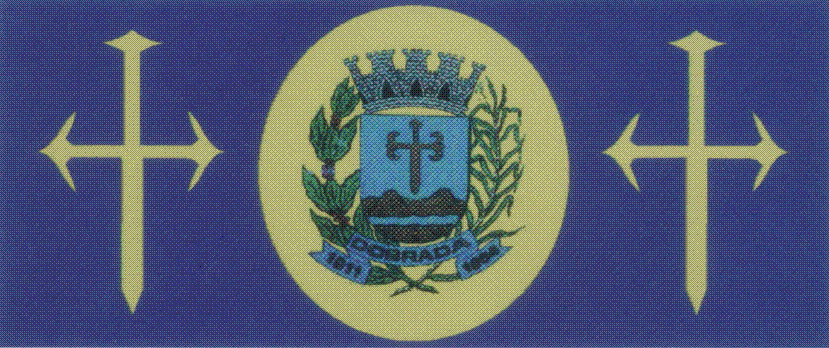 Bandeira de Dobrada - SP